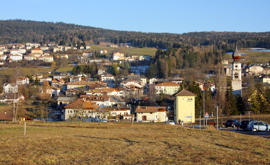 View of Sarnonico, Trento, Italy